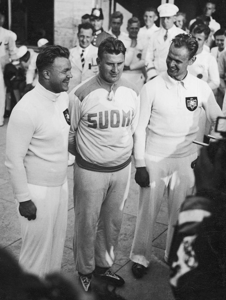 Berlin 1936 Shot put: Hans Woellke, Sulo Barlund, Gerhard Stock.